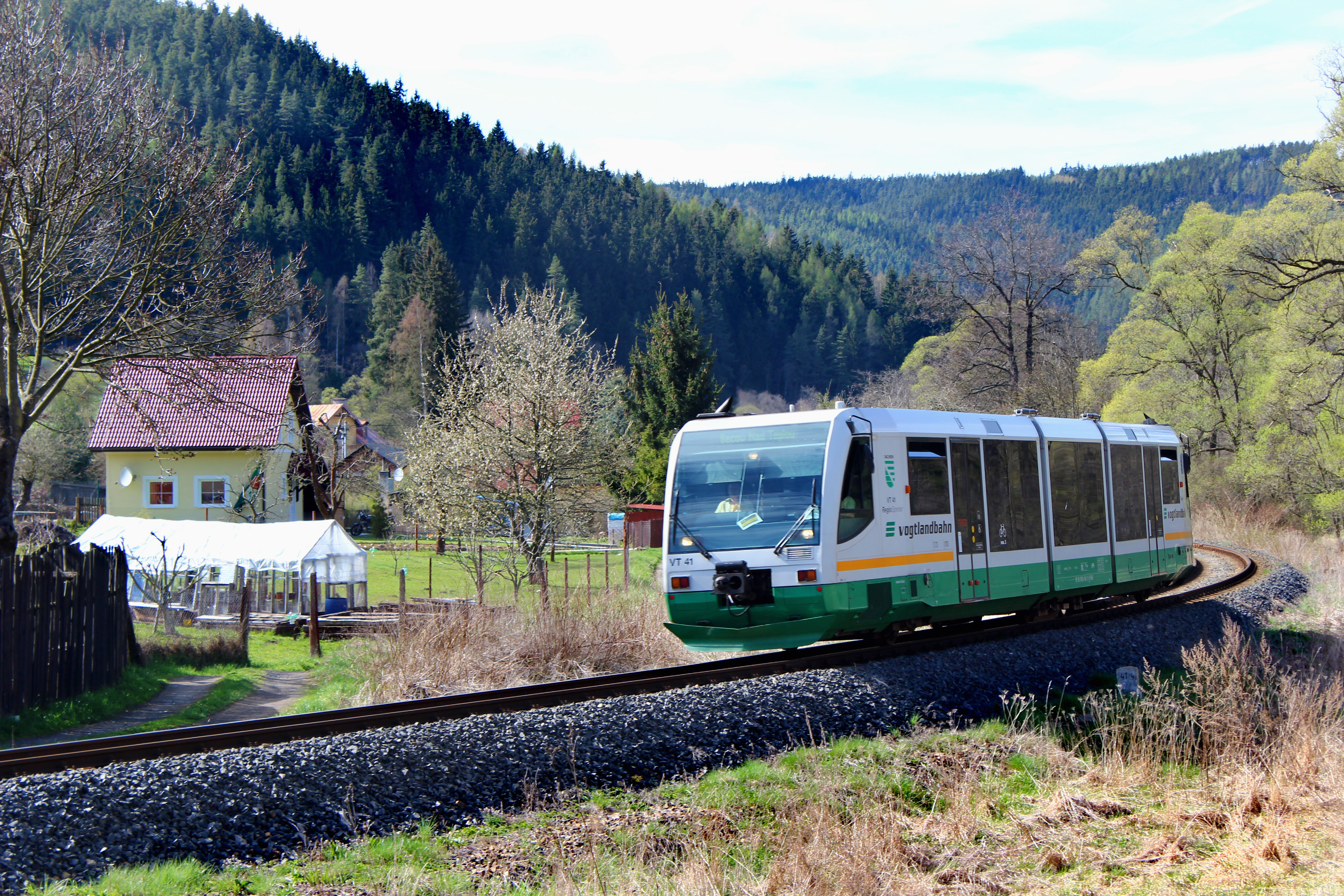 RegioSprinter train in Teplička village, Czech Republic